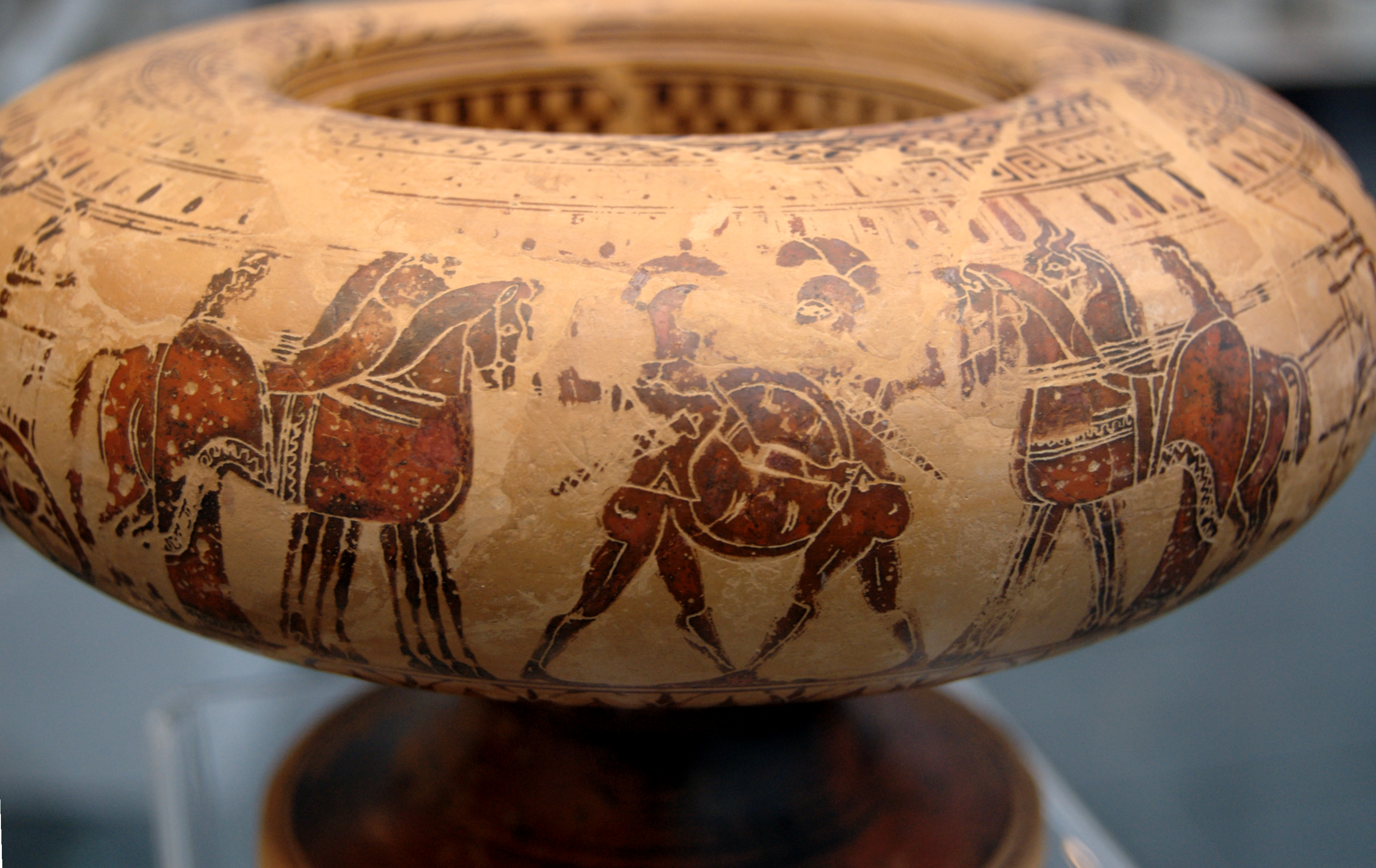 Achilles and Memnon, between two chariots. Attic black-figure pyxis, ca. 570 BC.